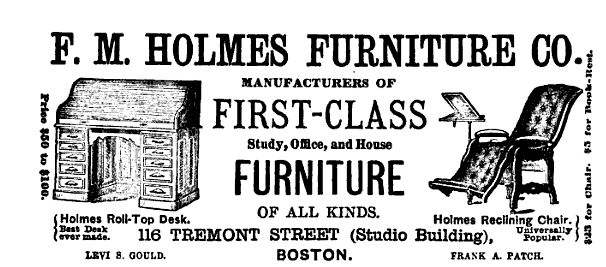 Atlantic Monthly March 1886 front ad